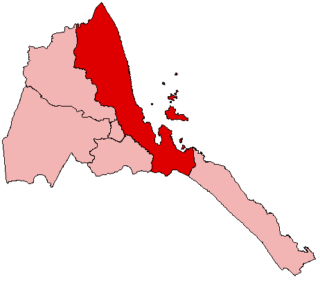 Map of Eritrea showing the Northern Red Sea Region; created with the GIMP. Made by User:Acntx